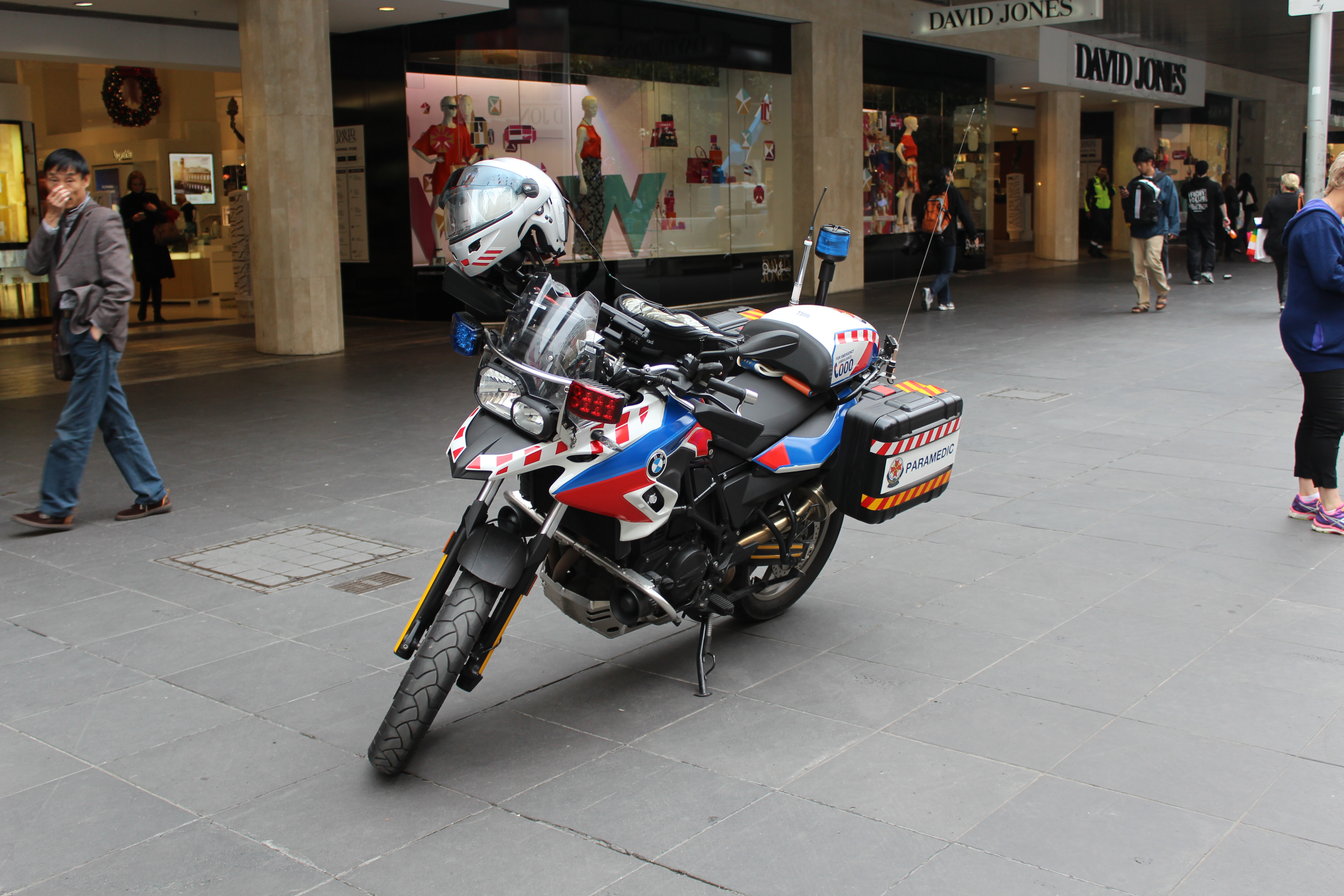 Victorian Ambulance motorcycle in Bourke St mall, 2013.